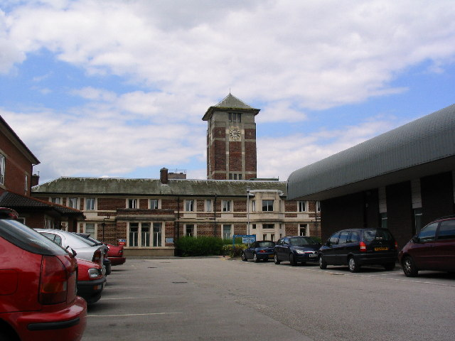 Trafford General Hospital. This Hospital was formerly called Park Hospital and on the 5th July 1948 when all hospitals were nationalised the minister of Health, Aneurin Bevan came to Park Hospital to receive the keys to symbolise the birth of the NHS.